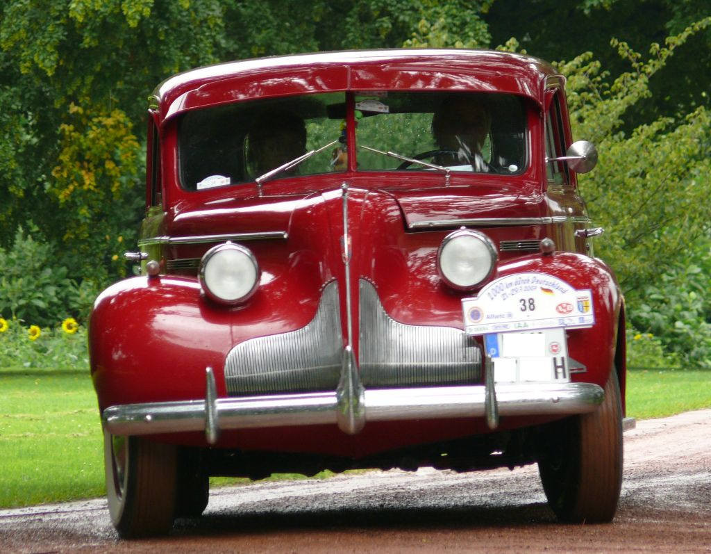 1939 Buick Special Series 40 Model 41 4-door Touring Sedan